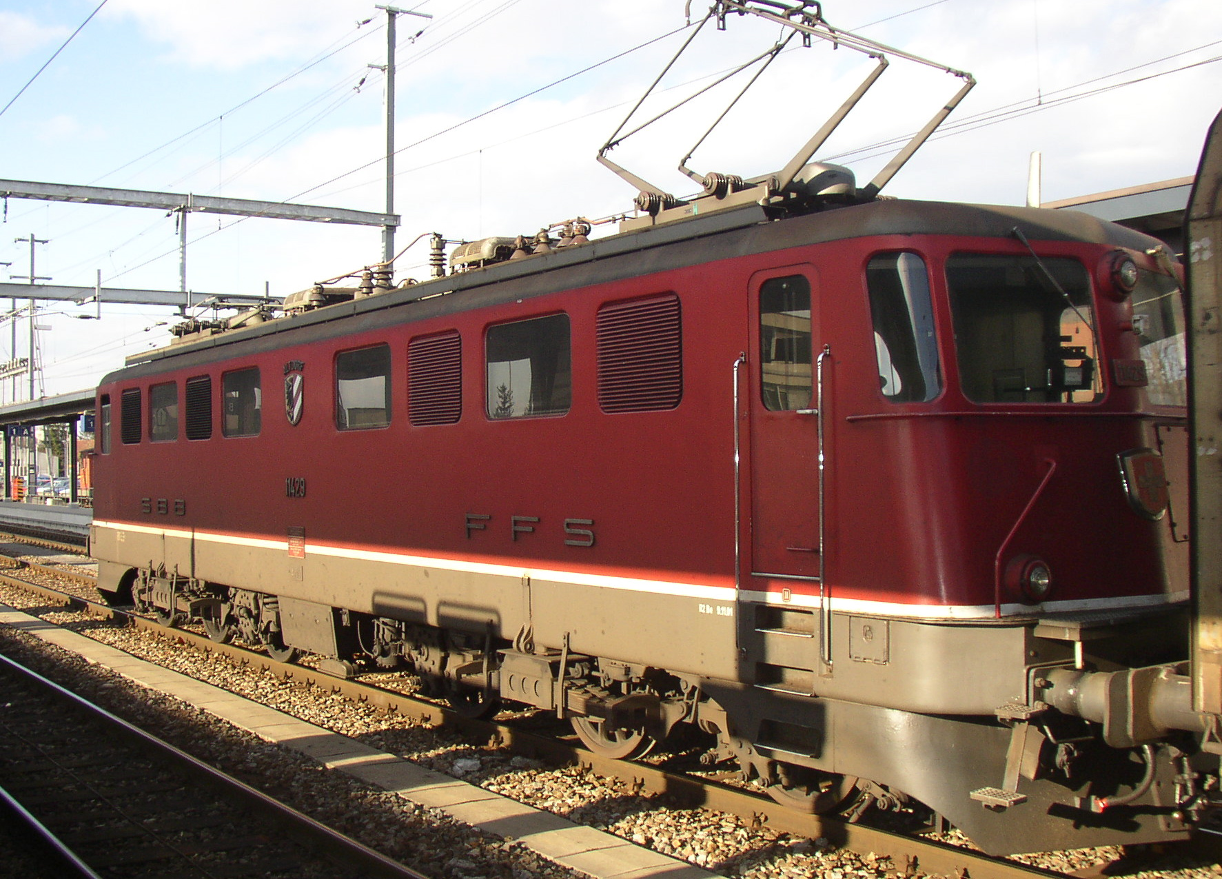 The SBB locomotive Ae 6/6 11429 (Altdorf) in station Weinfelden.